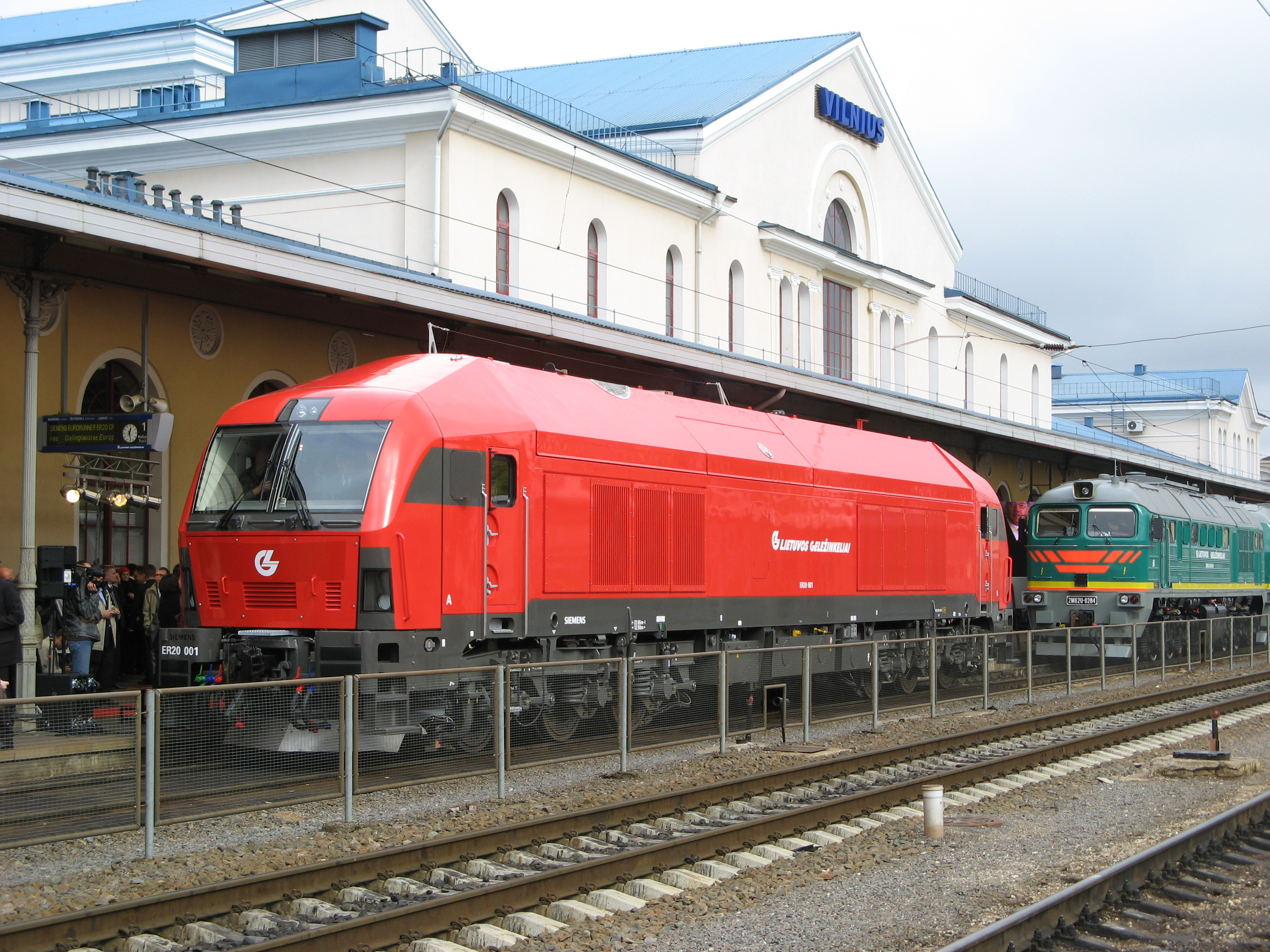 Lithuanian Railways (Lietuvos Geležinkeliai) Siemens ER20 CF freight locomotive no ER20-001, on the day it was officially unveiled at the central station in Vilnius, 5th October 2007